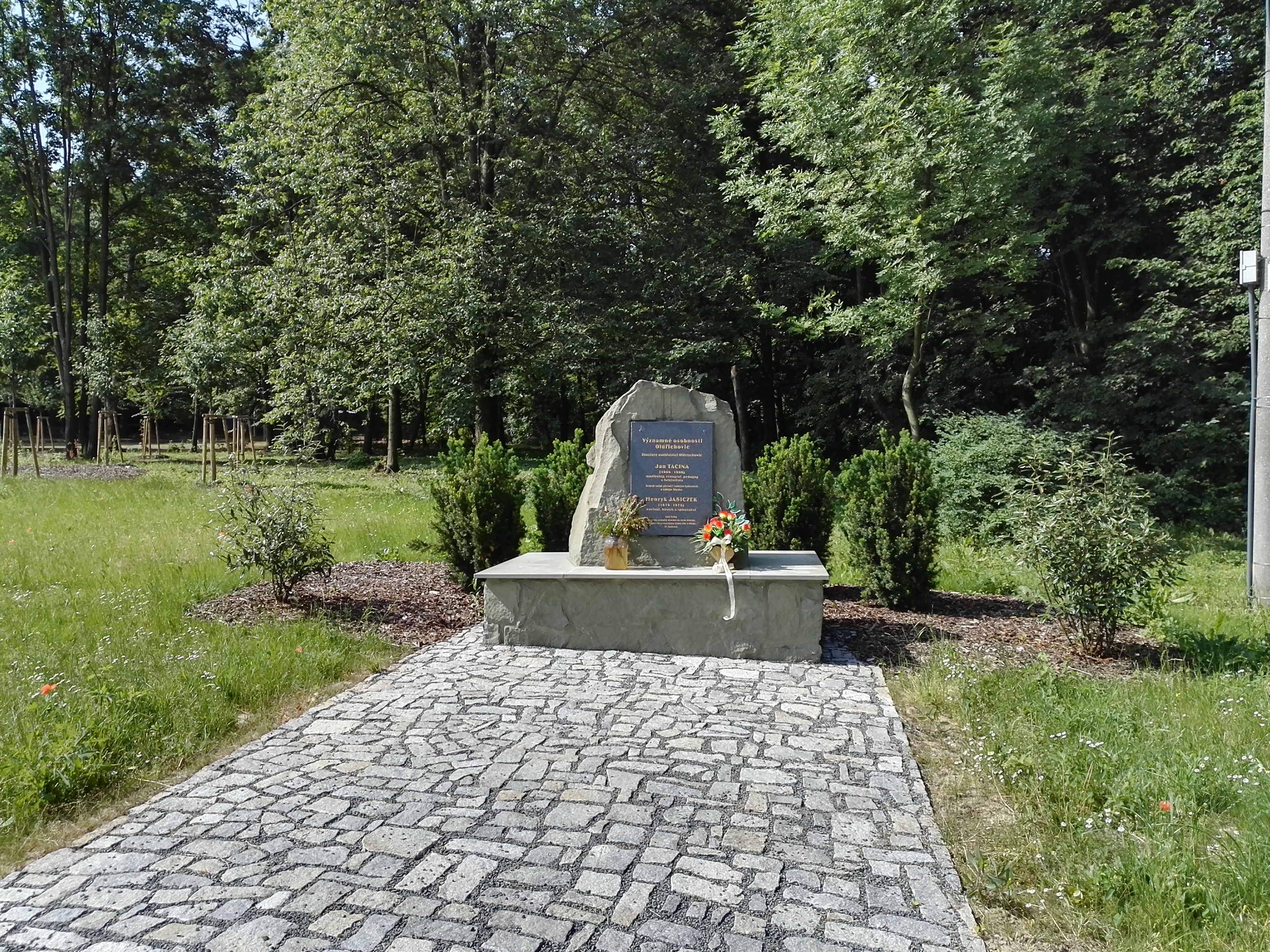 Třinec – Oldřichovice. Memorial plaque to folklorist Jan Tacina (1909–1990) and poet Henryk Jasiczek (1919–1976) from 2018.